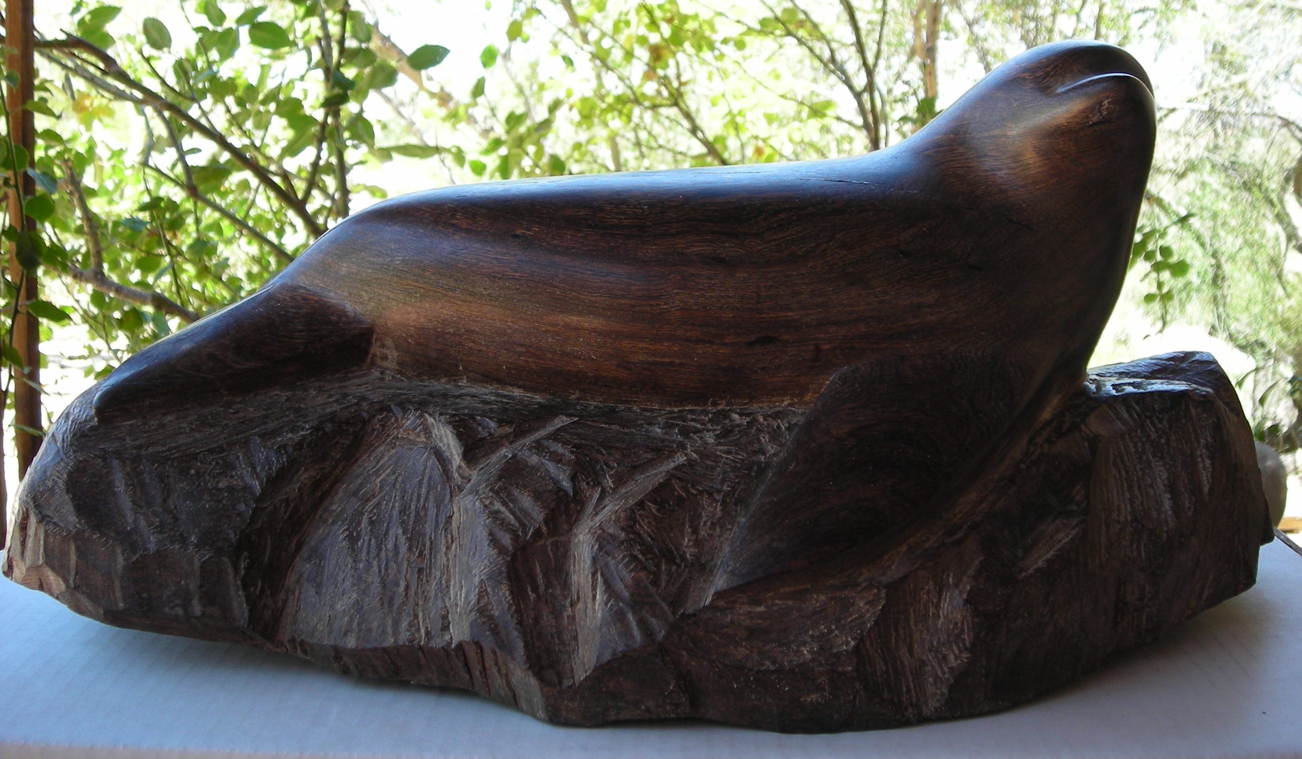 Seri ironwood carving by Aurora Astorga circa 1975